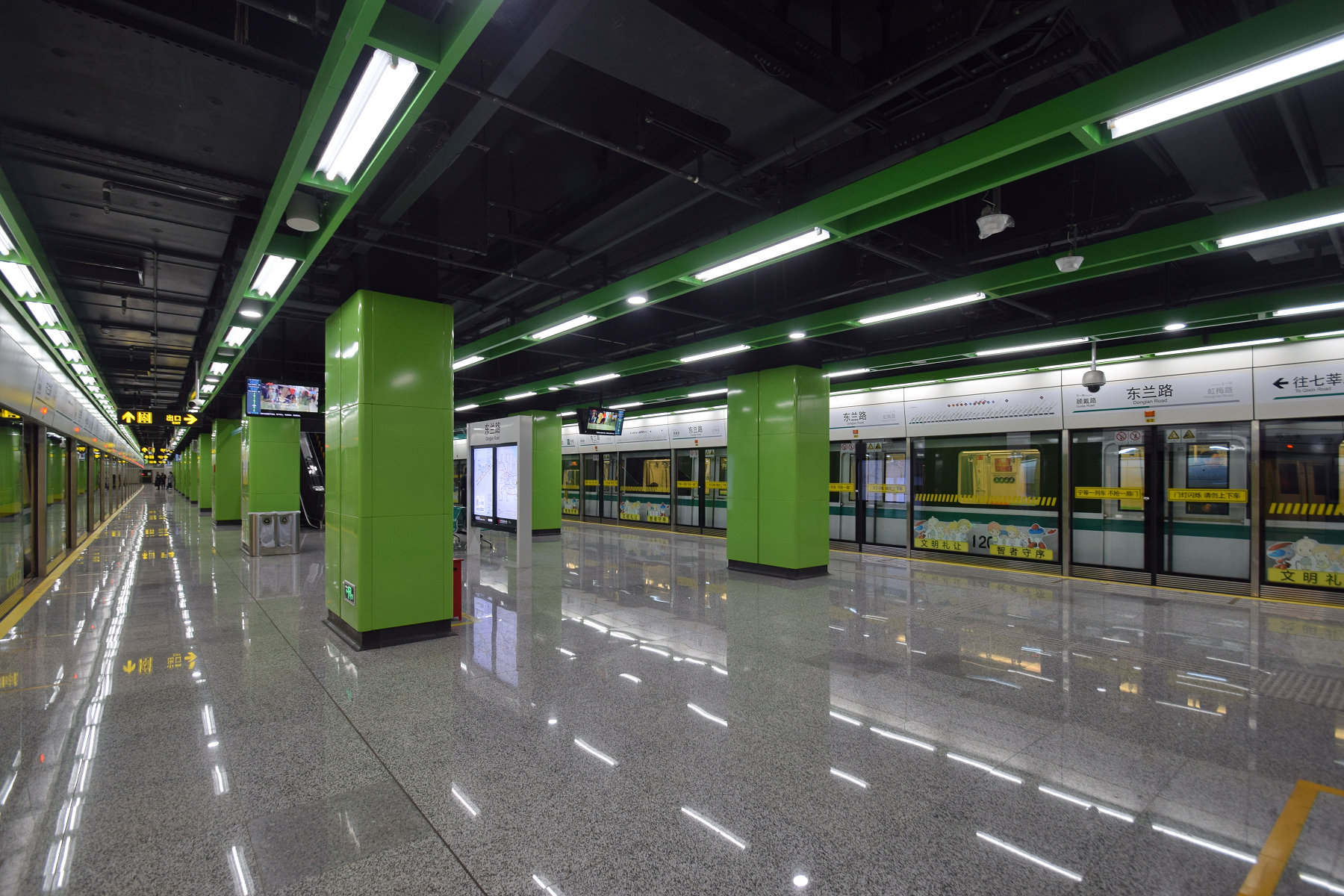 Line 12 Platform of Donglan Road Station, Shanghai Metro